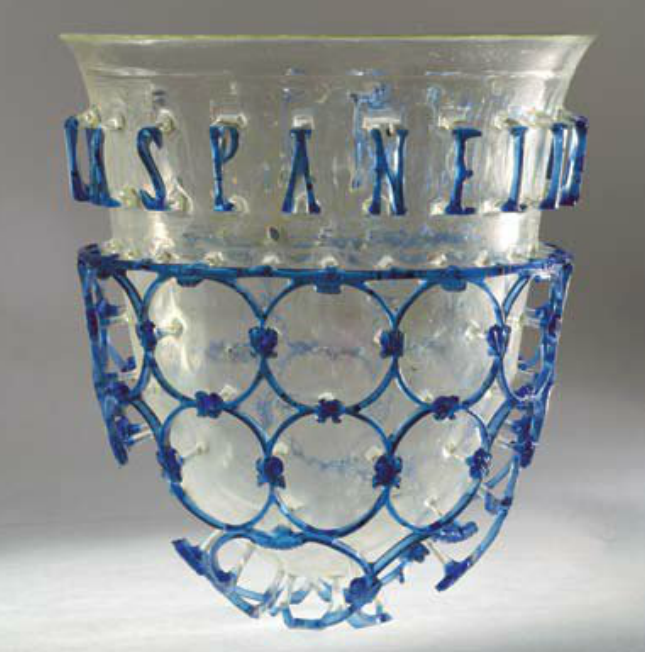 Diatreta (nekropolis Komini II - Pljevlja, Montenegro) 4th century. Inscription: vivas panelleni bona(m).